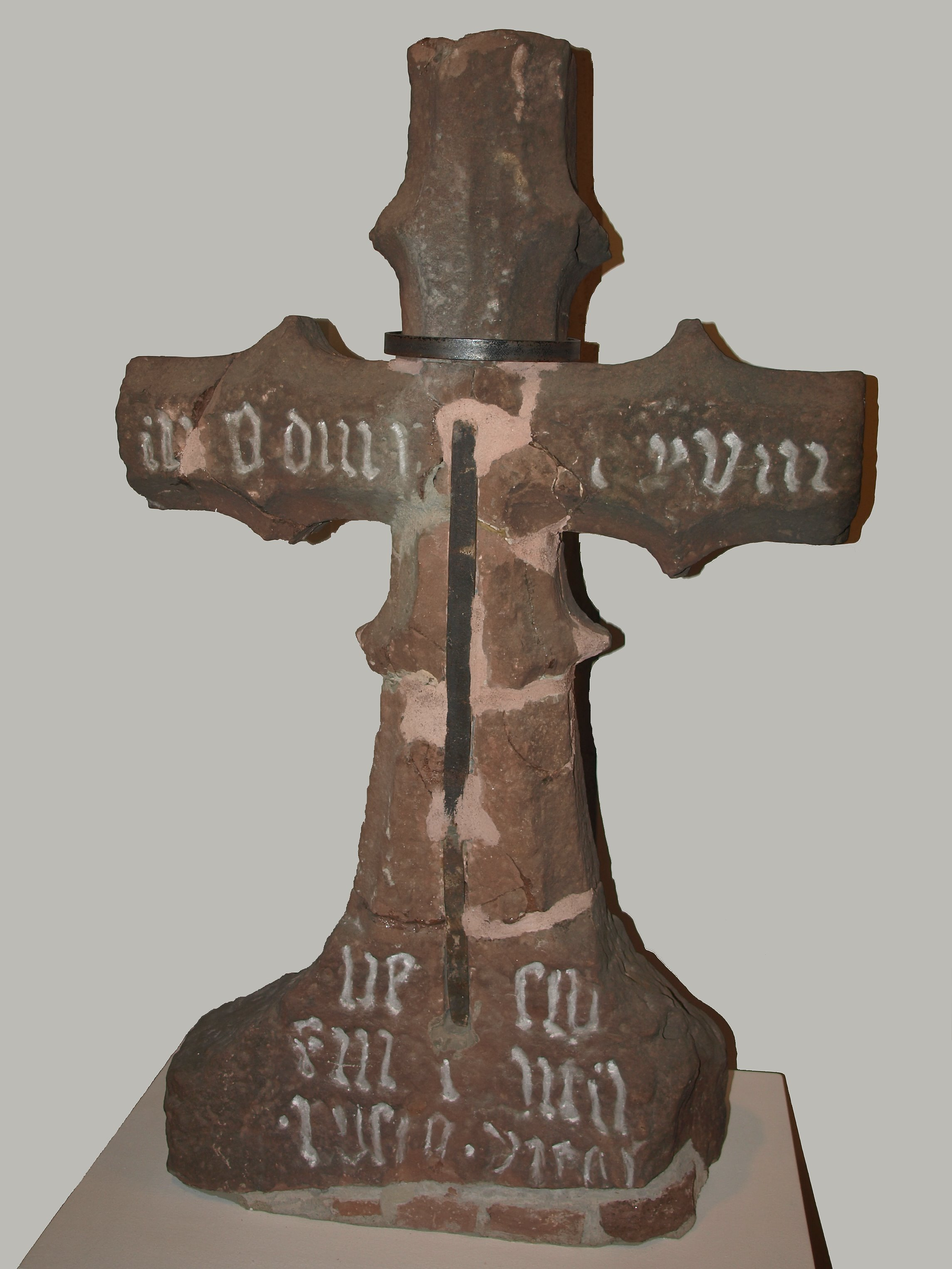 Vitalis cross, a stone cross in Bad Hersfeld from 14th century